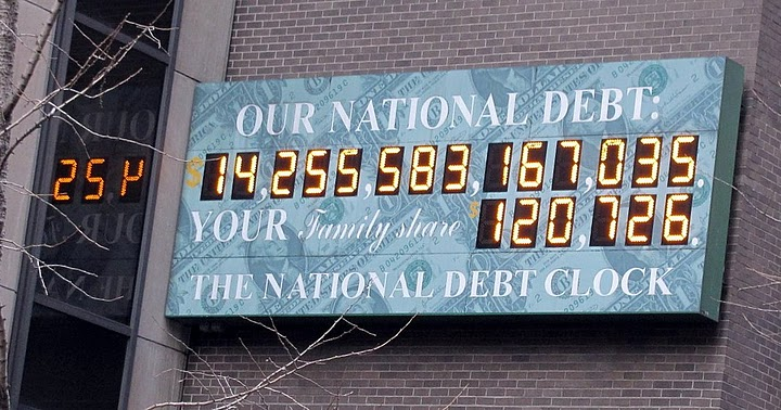 US National Debt Clock, NYC (2011-03-04).